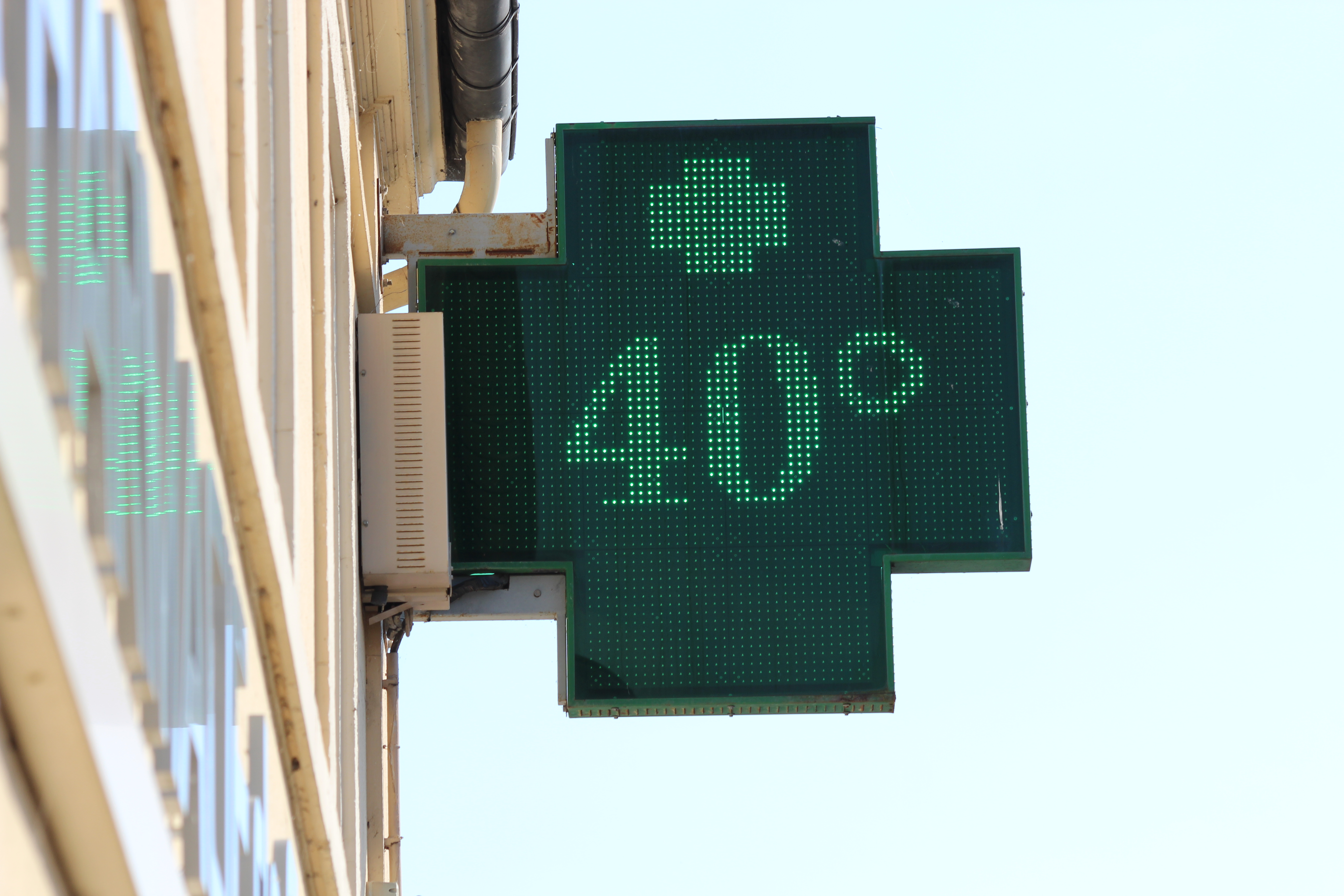 Pharmacy sign showing 40 degrees Celsius on July 1, 2015 in Saint Rémy lès Chevreuse, France.